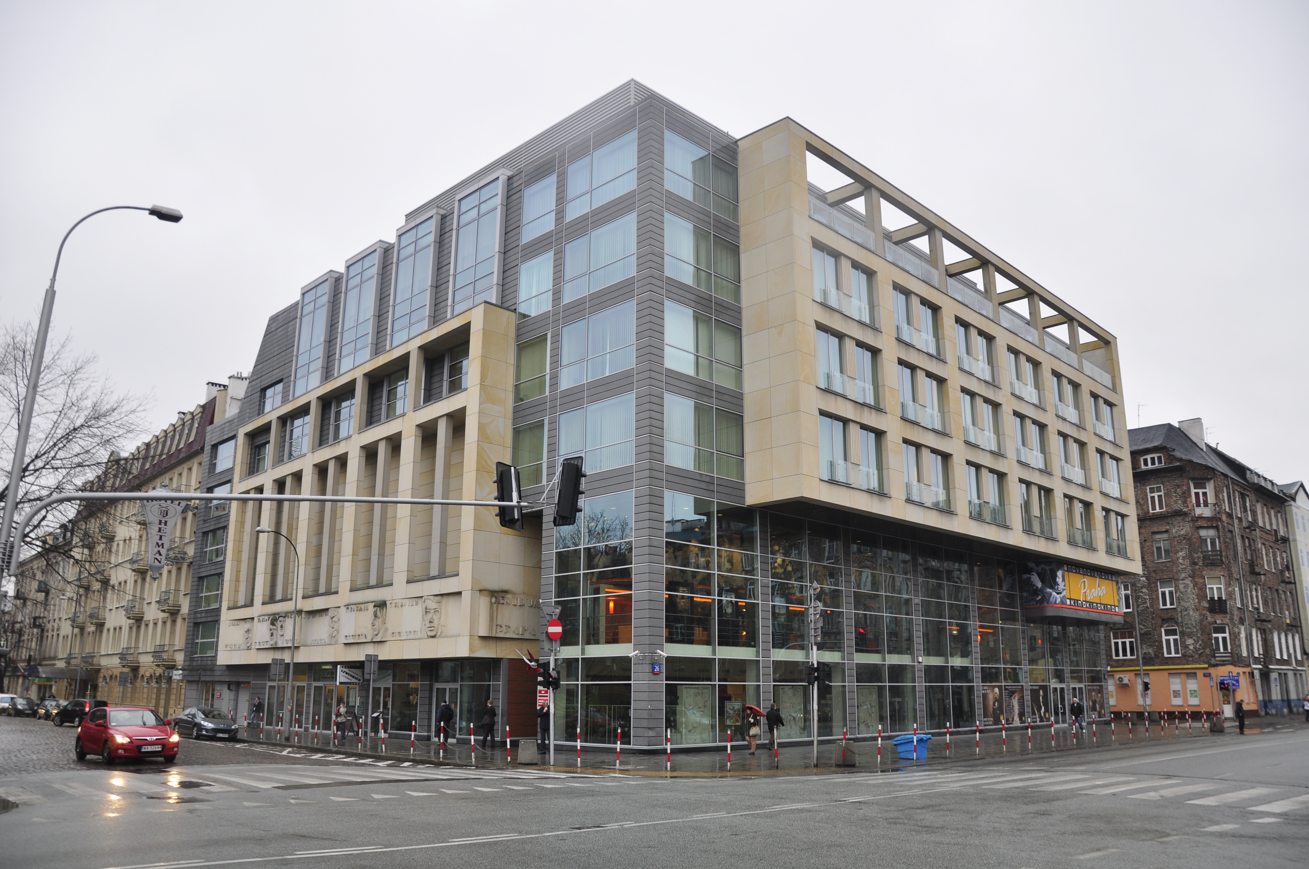 Warsaw Praga, Centrum Praha, Nove Kino Praha (multiplex cinema)